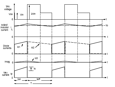 Графік роботи базового прямоходового одноконтактного перетворювача